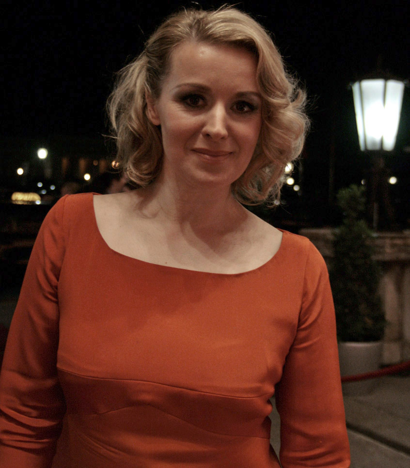 Actress Petra Morzé at the Romy TV awards (Hofburg Imperial Palace in Vienna)